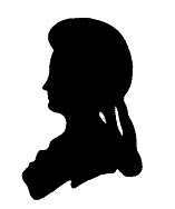 Silhouette portrait of Italian opera singer Luisa Laschi (c. 1760 – c. 1790) ; one of four silhouettes of the singers in the first performace of Mozart's The Marriage of Figaro. Laschi was the first wife of Domenico Mombelli.